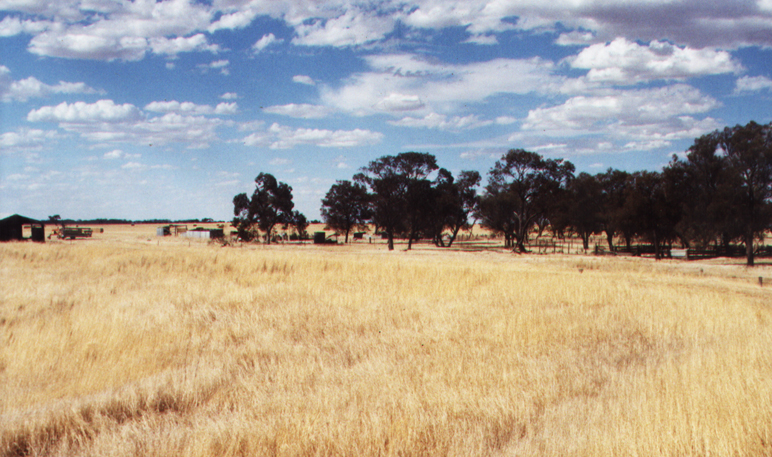 Willenabrina, Victoria, Australia. Source Own work